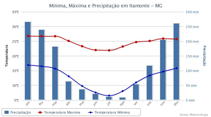 ITAMONTE CLIMATE